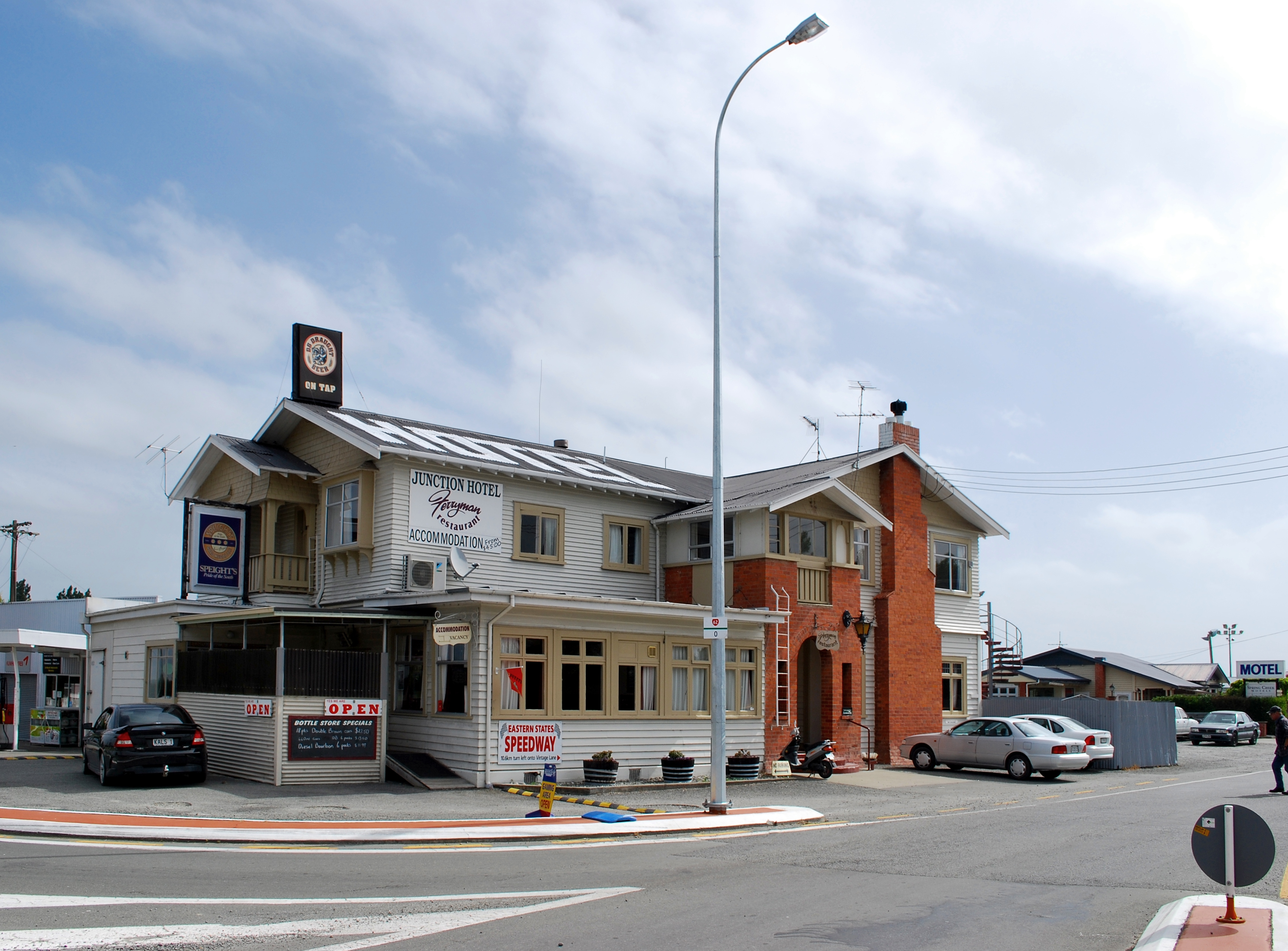 Junction Hotel at Spring Creek, New Zealand at the intersection of New Zealand State Highway 1 and New Zealand State Highway 62